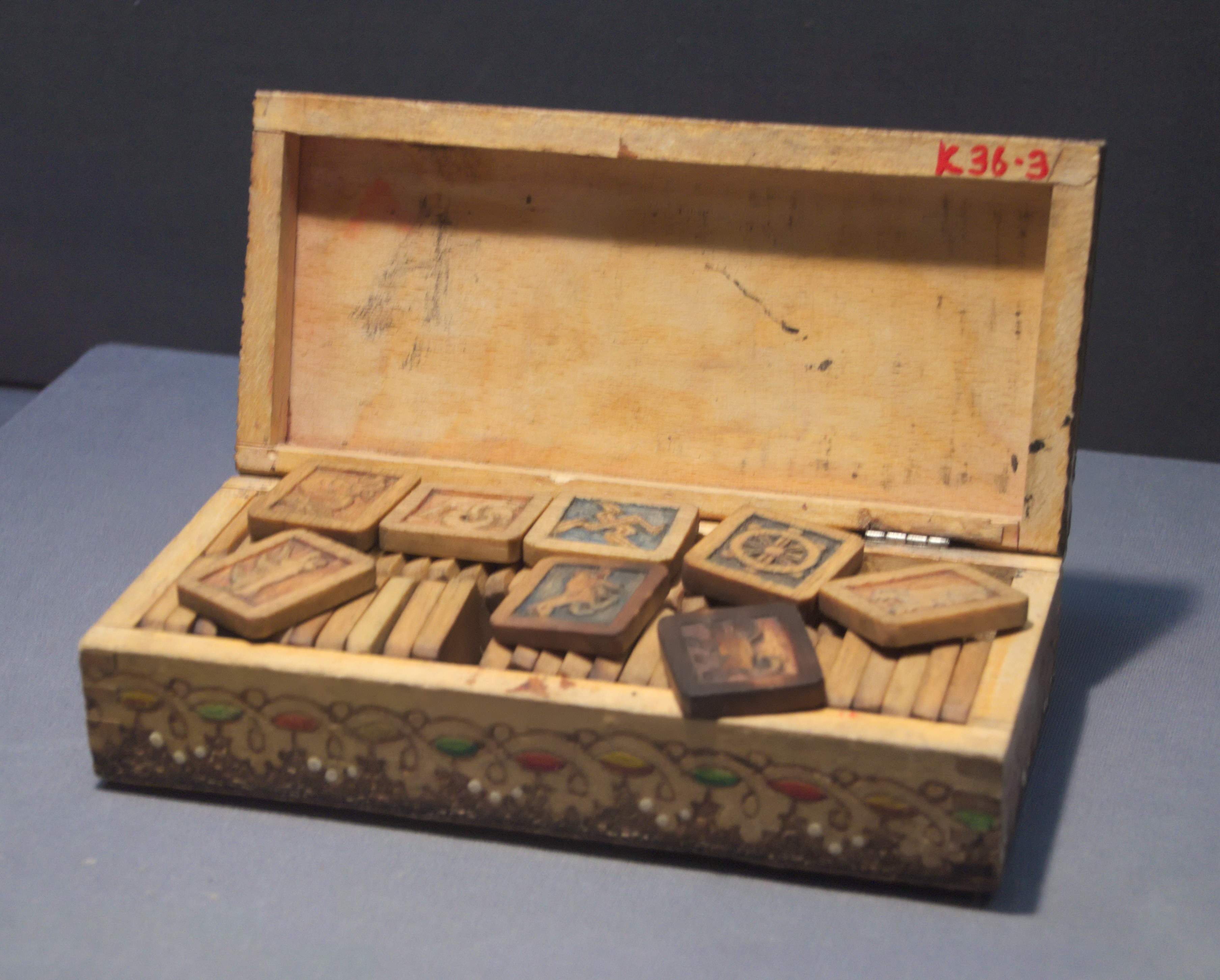 Box of mongolian card and chess, from Qing dynasty.